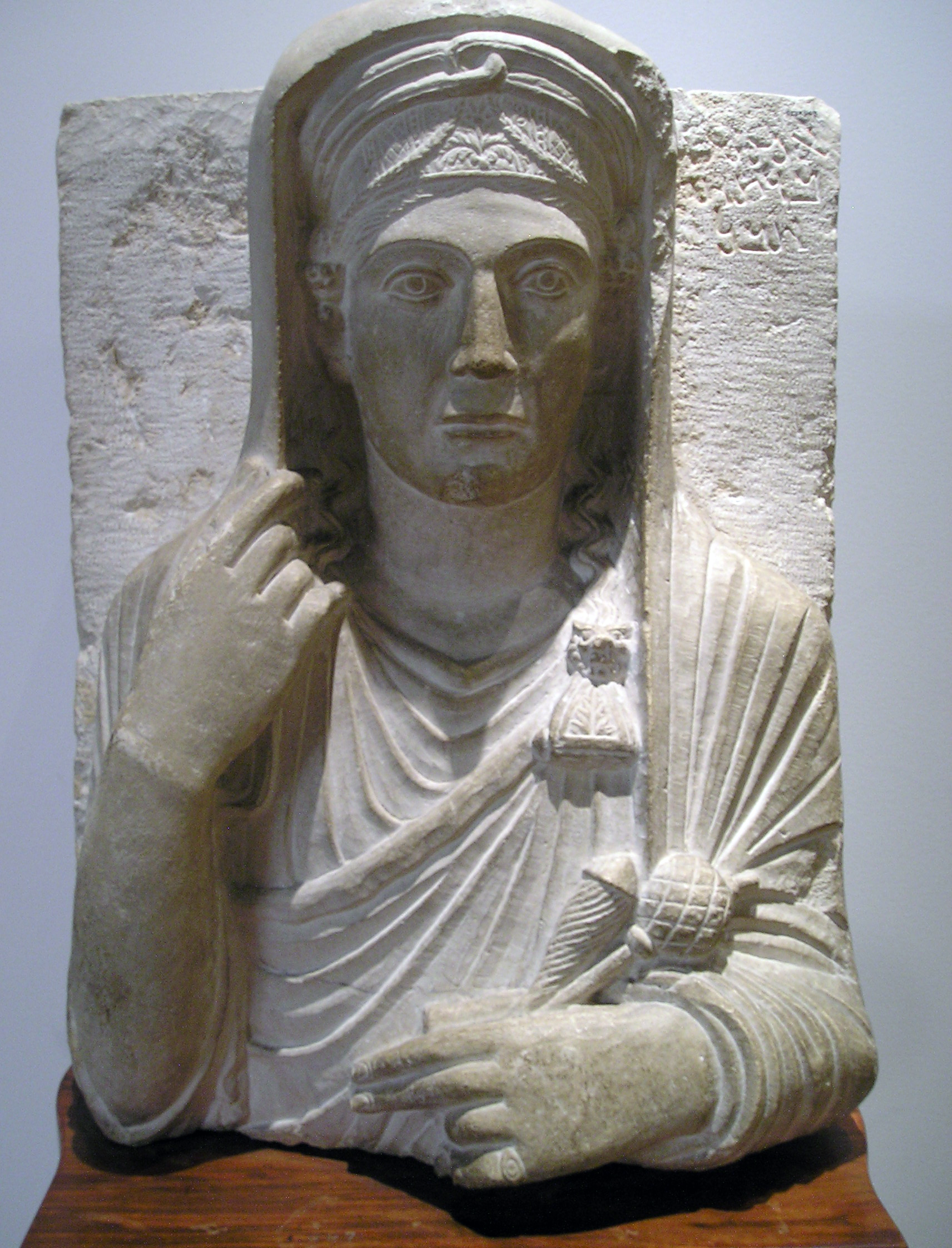 Palmyra Tombstone of Akmath, from the 2nd Century AD. Now residing in the Royal Ontario Museum, Toronto.